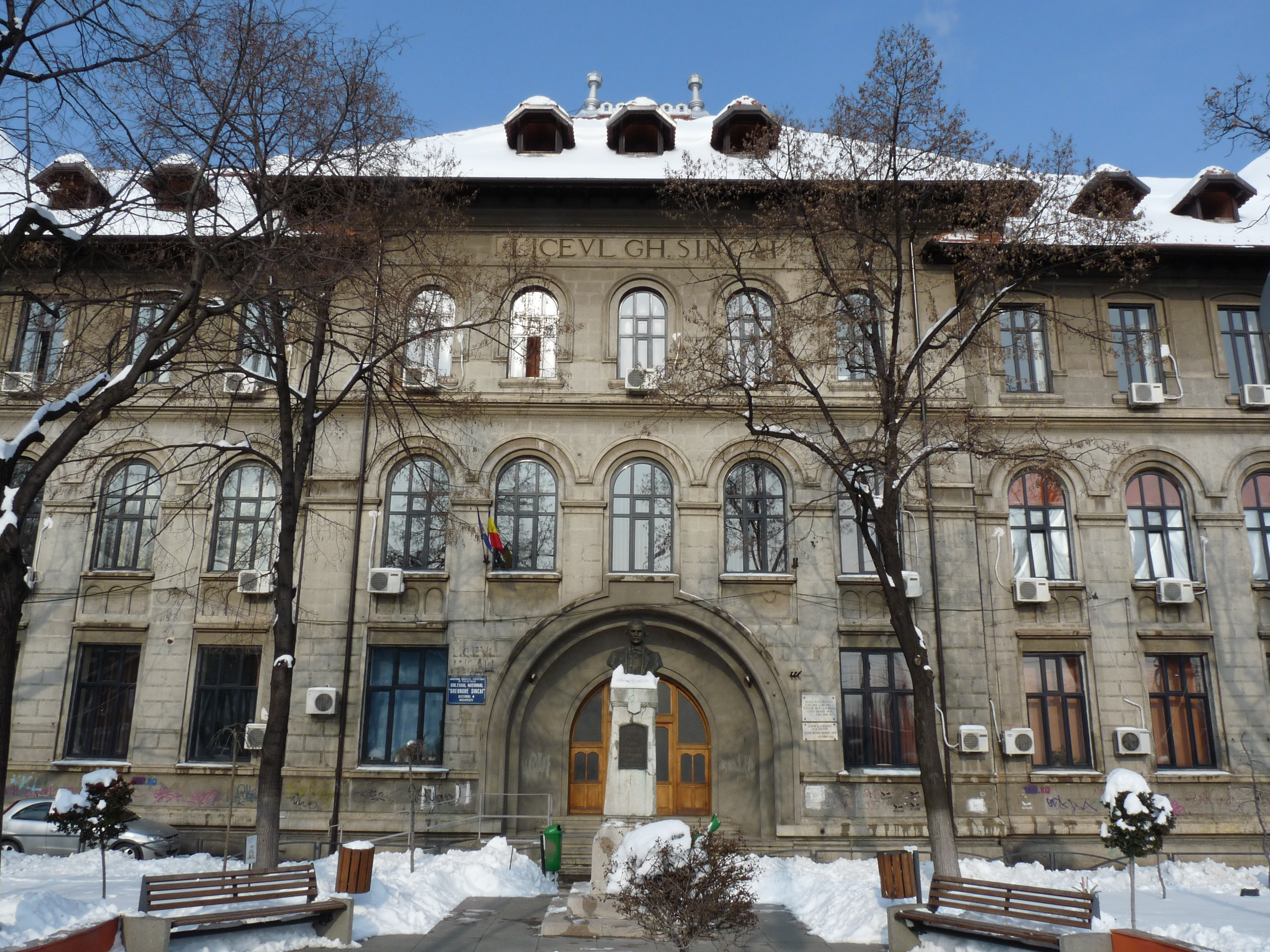 Front side of the Gheorghe Şincai high school in Bucharest, Romania